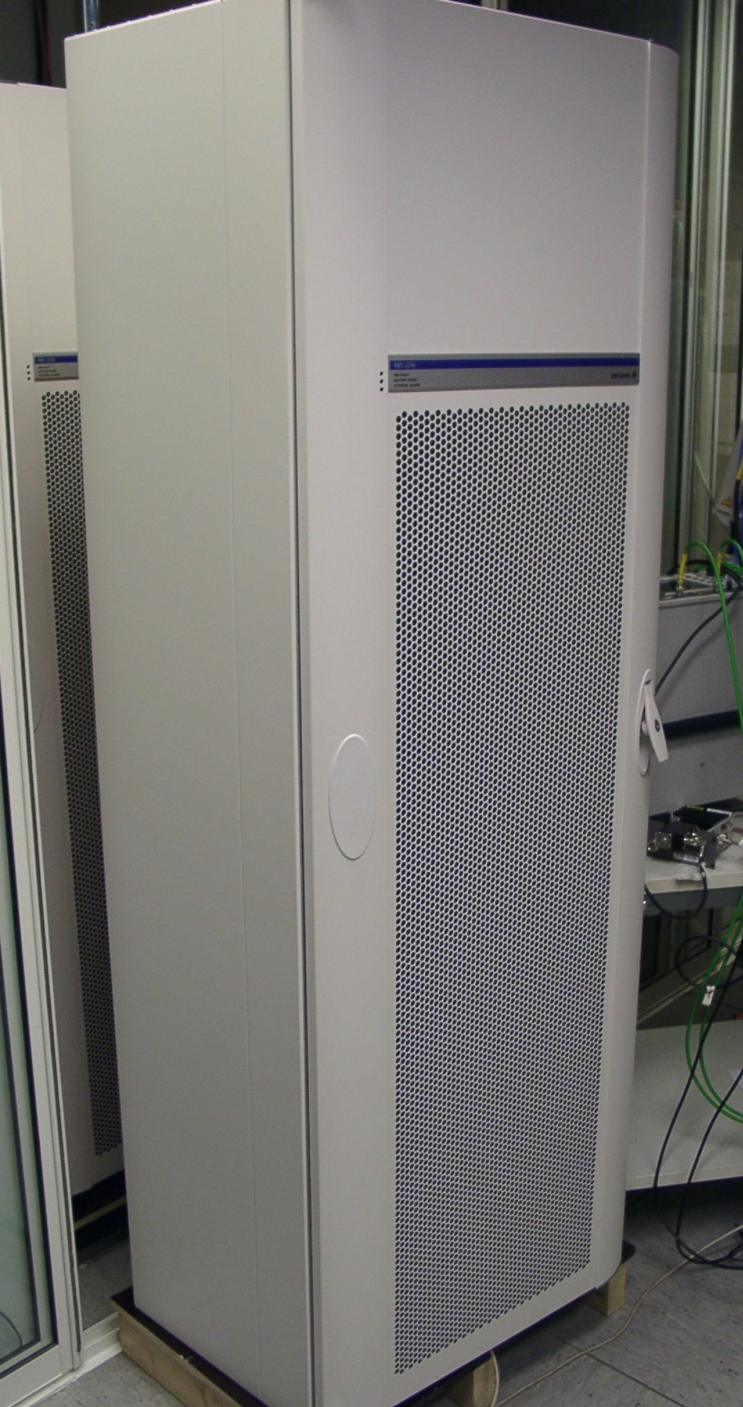 Radio equipment rack for GSM and UMTS mobile base station. Telenor, Norway